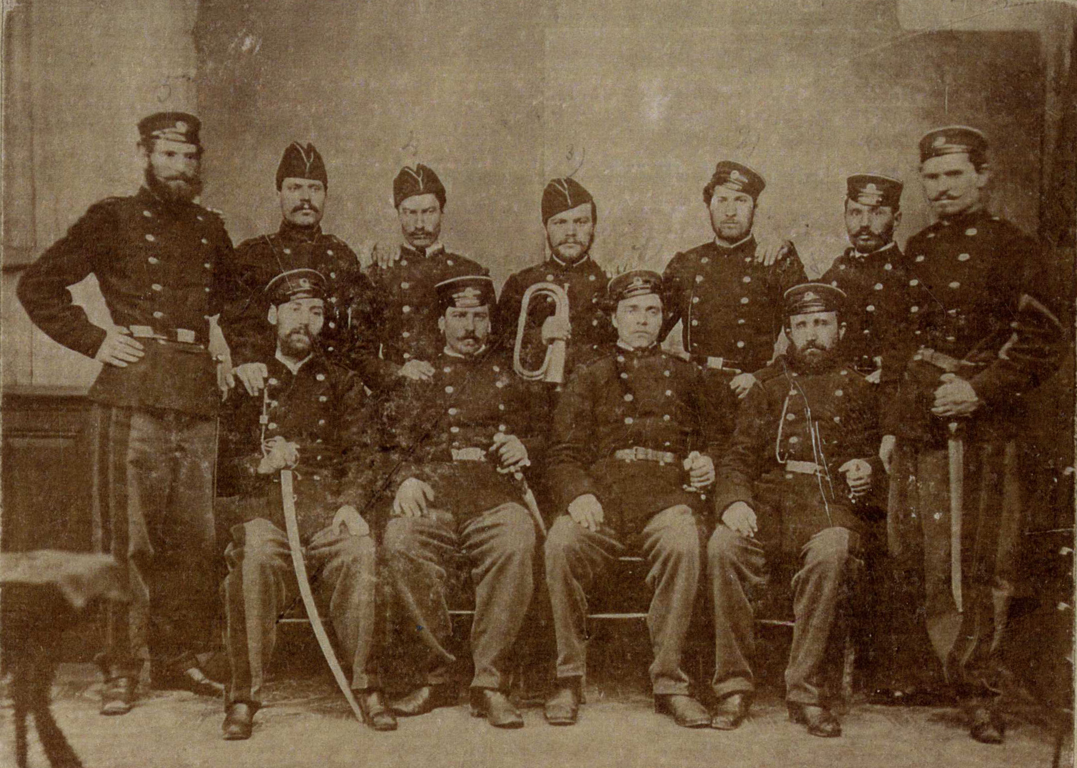 Vasil Levski (3rd from left to right, first row) with his comrades of the Second Bulgarian Legion in Belgrade, 1868.